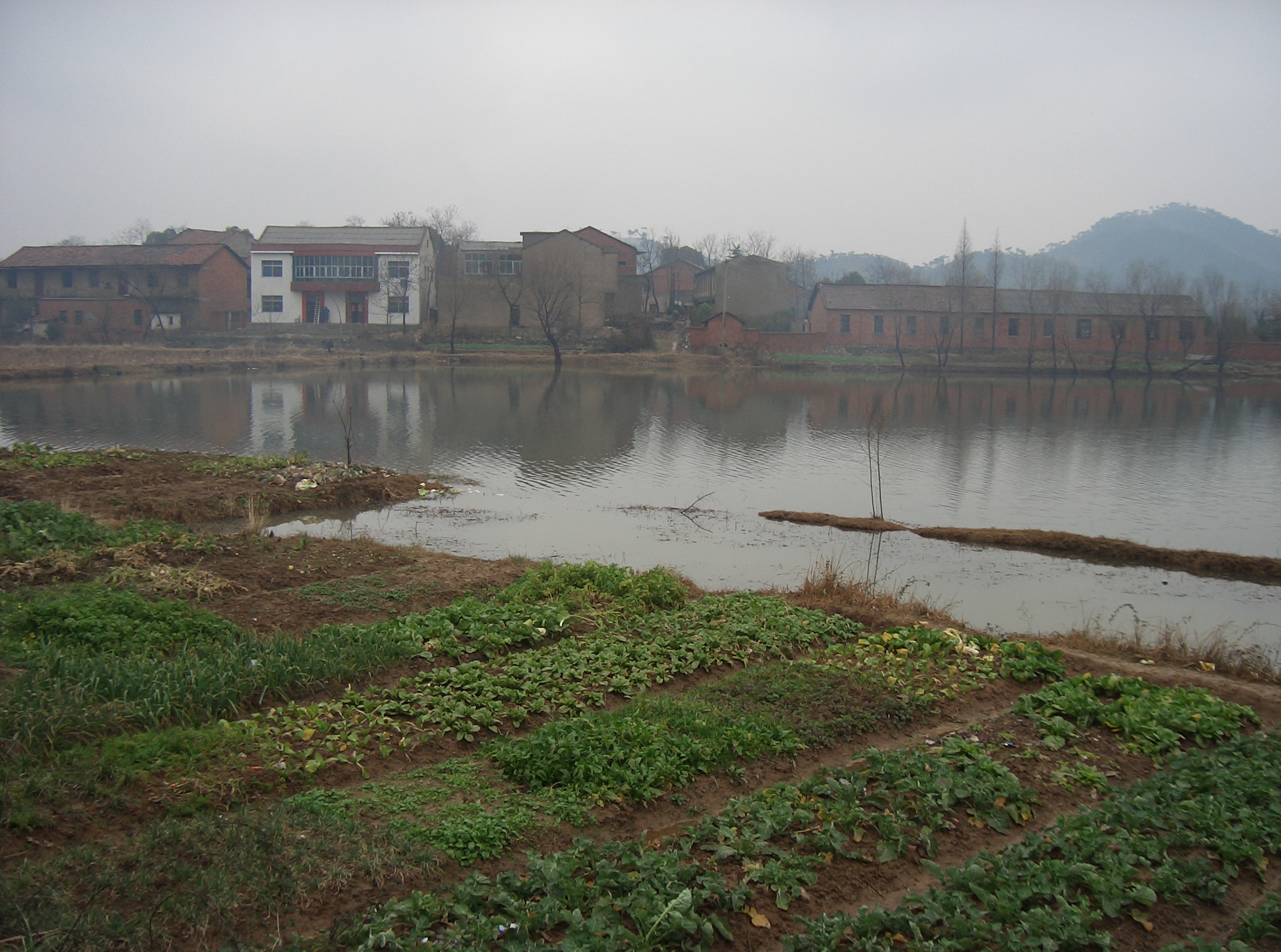 Modern rural life in Qichun village, Hubei province, China.